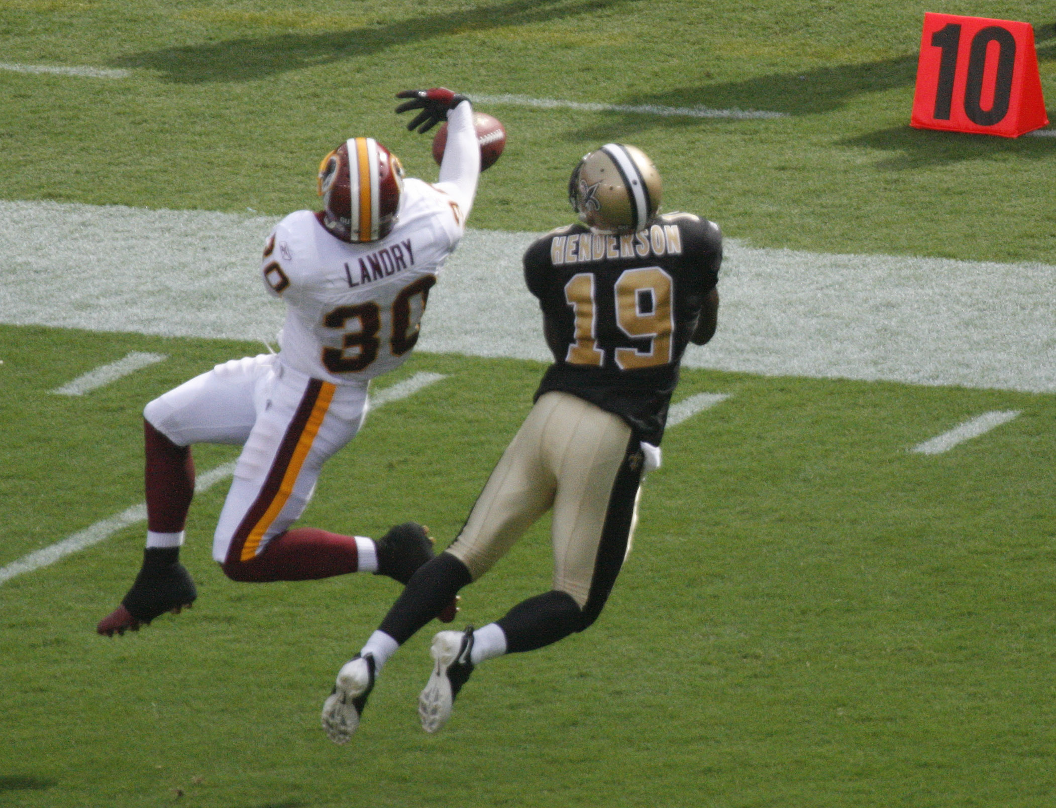 LaRon Landry covering Devery Henderson.